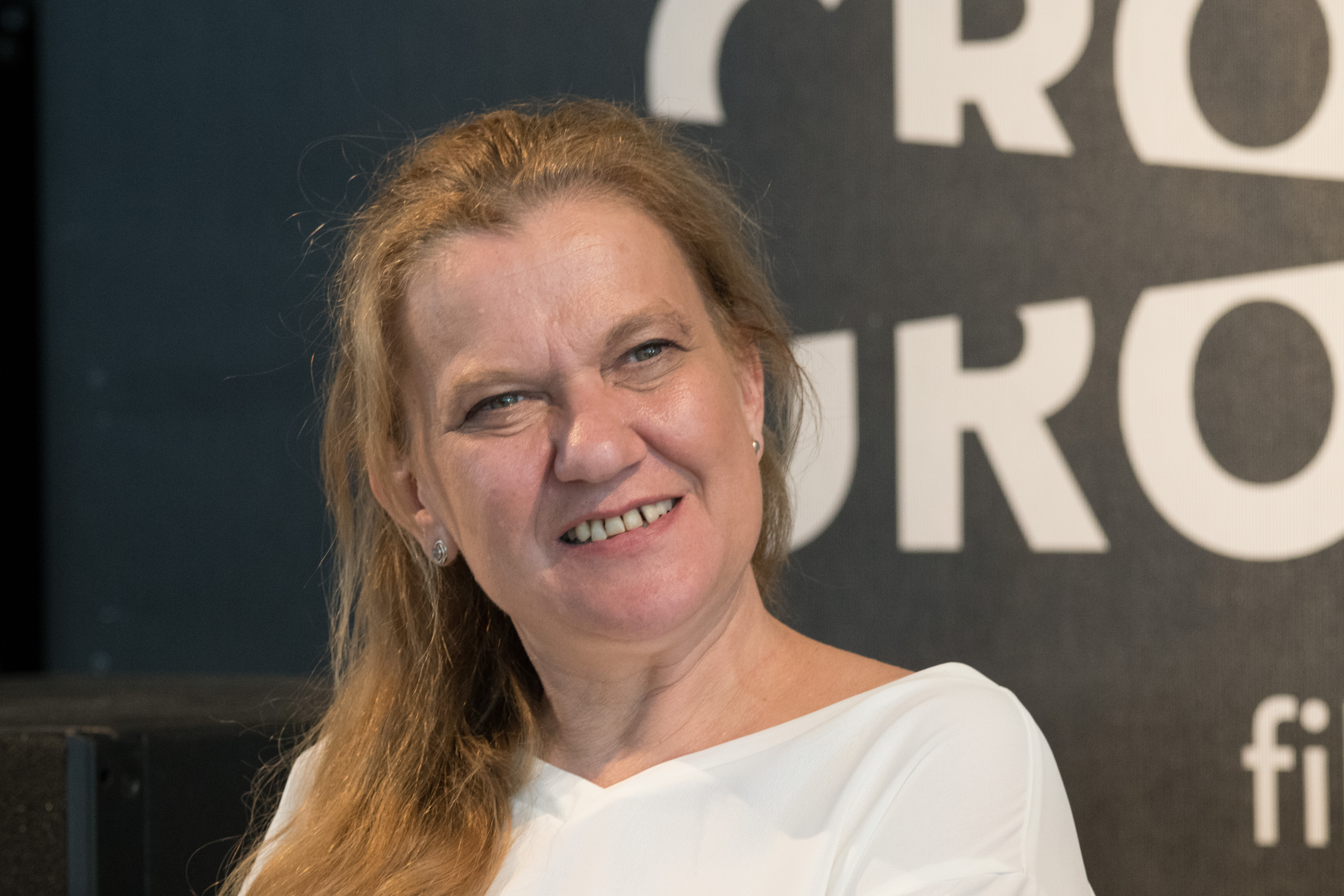 Crossing Europe 2018 - Ada Solomon